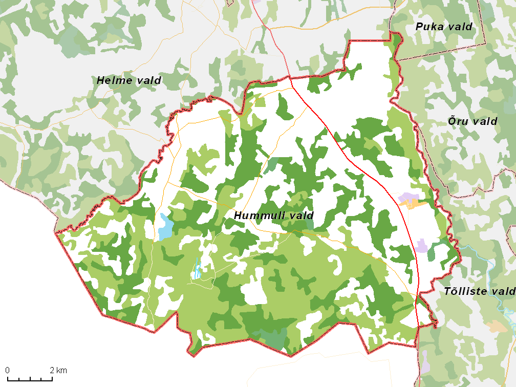 Map of municipality in Estonia